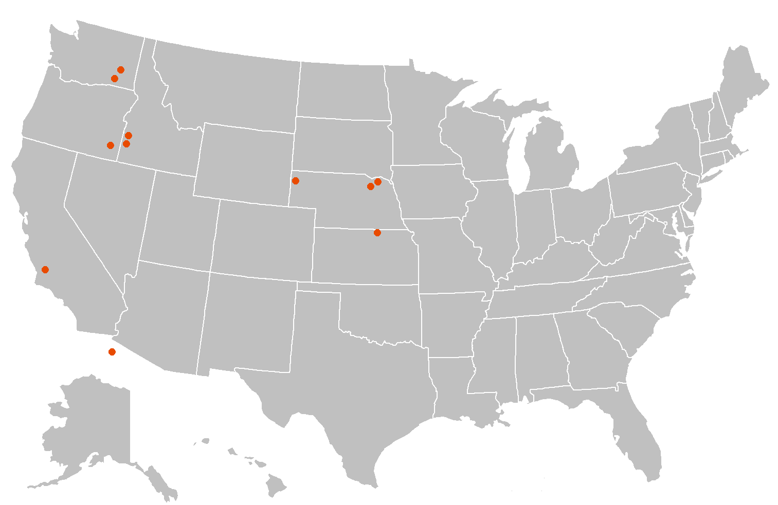 Range map of the extinct Castor californicus in US-claimed territory.